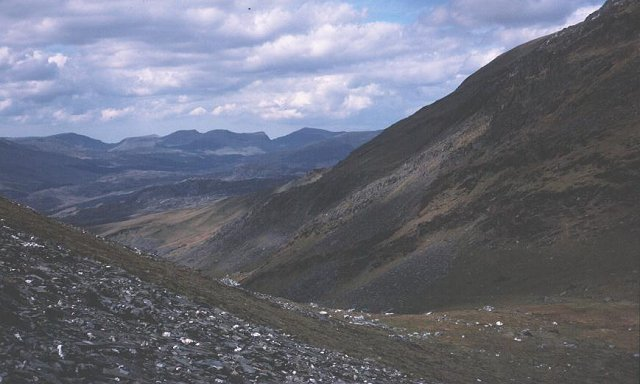 Bwlch Stwlan. Pass between the Moelwyns. View south towards the Rhinog range.